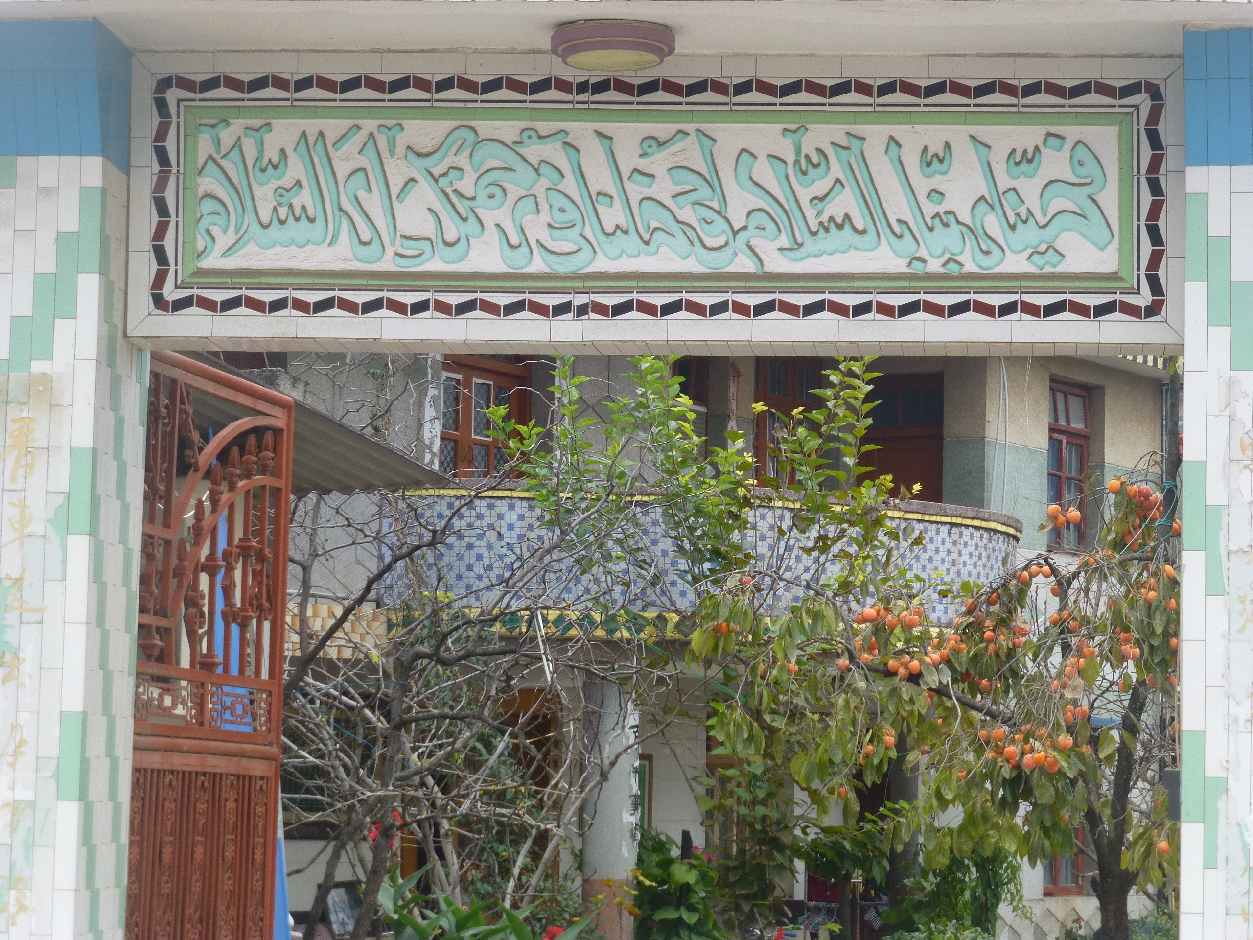 Dahui Village, Tonghai County, Yunnan.